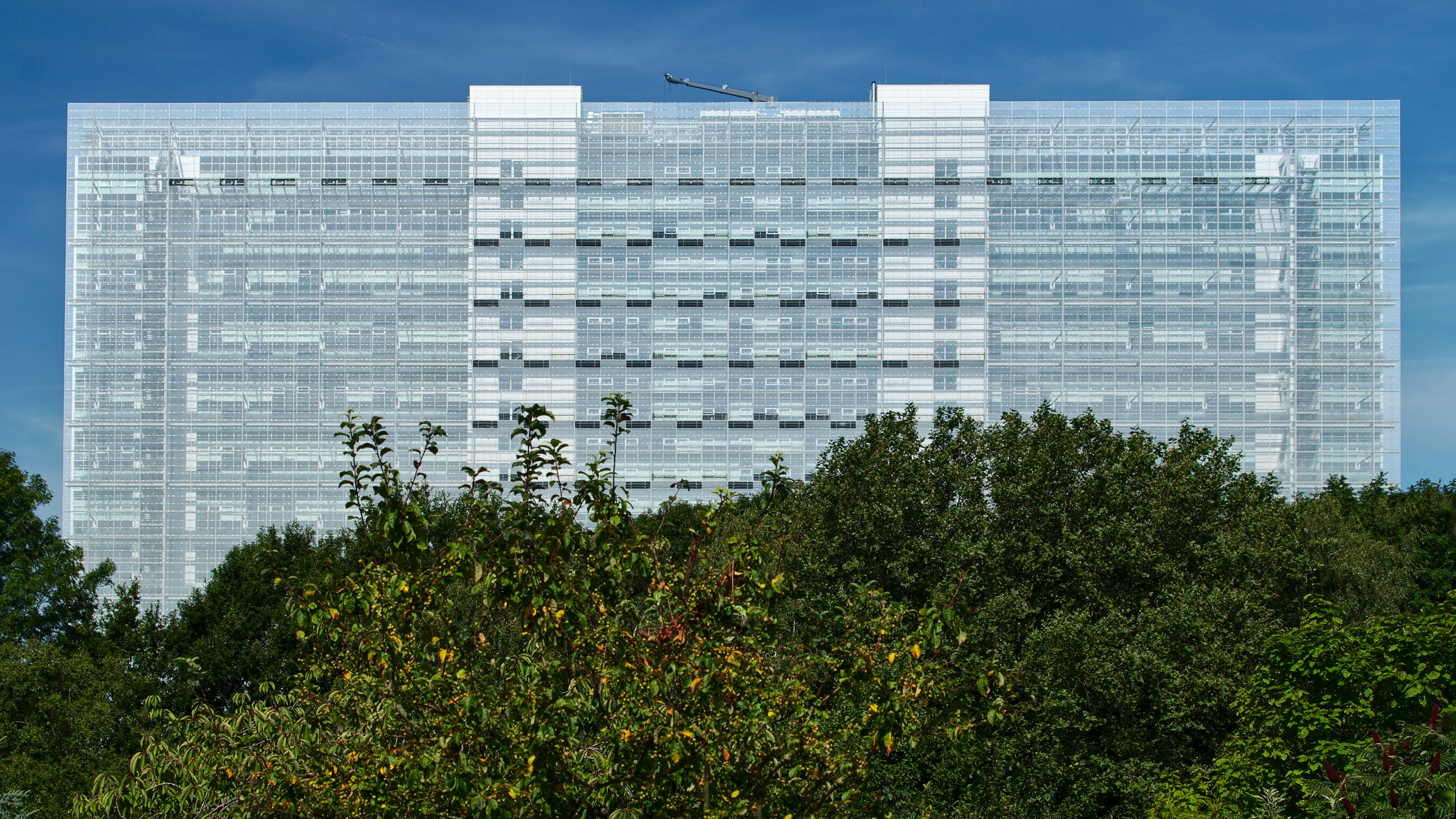 The new European Patent Office in Rijswijk with trees in front of it